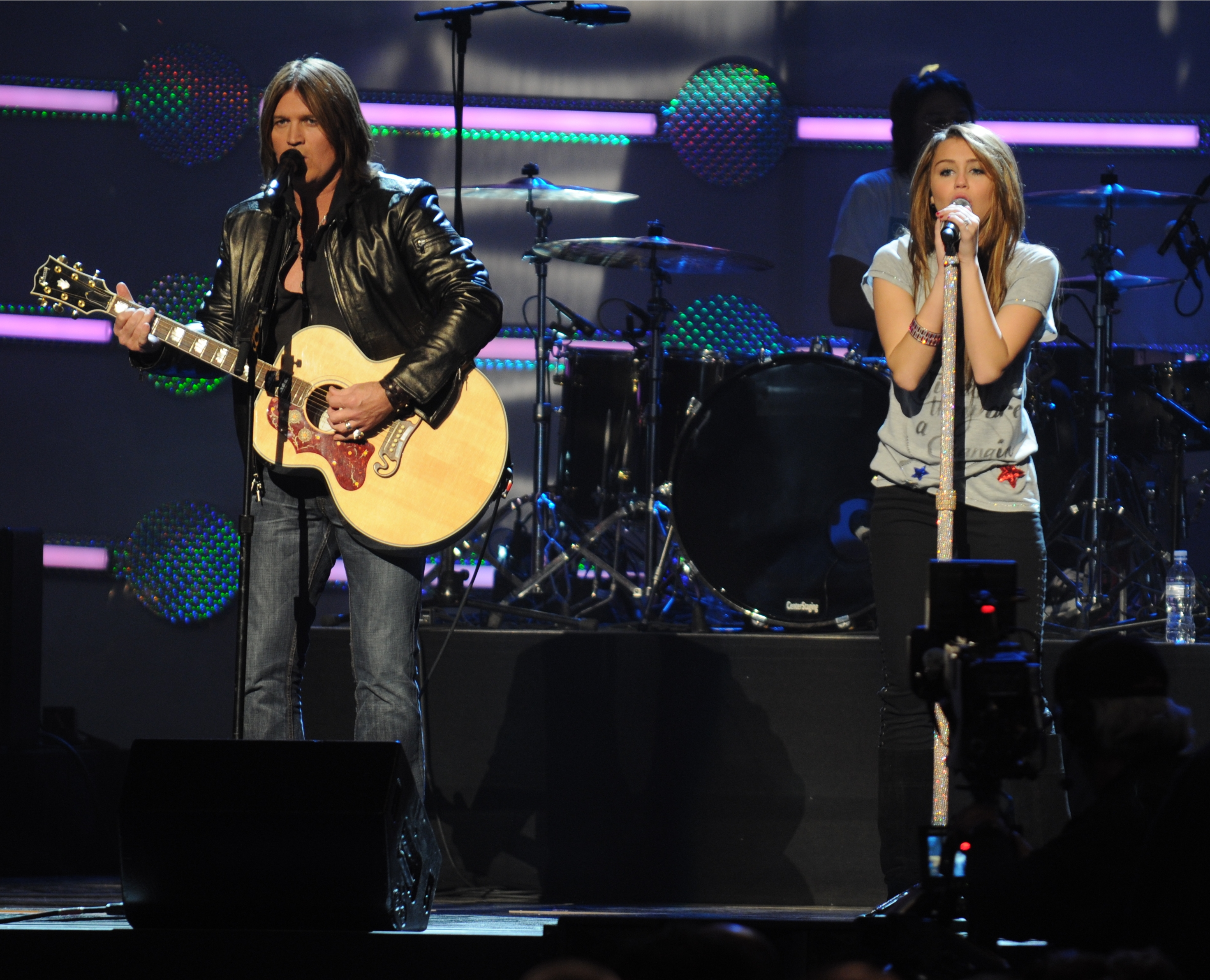 Billy Ray Cyrus and his daughter Miley Cyrus perform at the "Kids Inaugural: We Are the Future" concert at the Verizon Center in downtown Washington, D.C., Jan. 19, 2009.